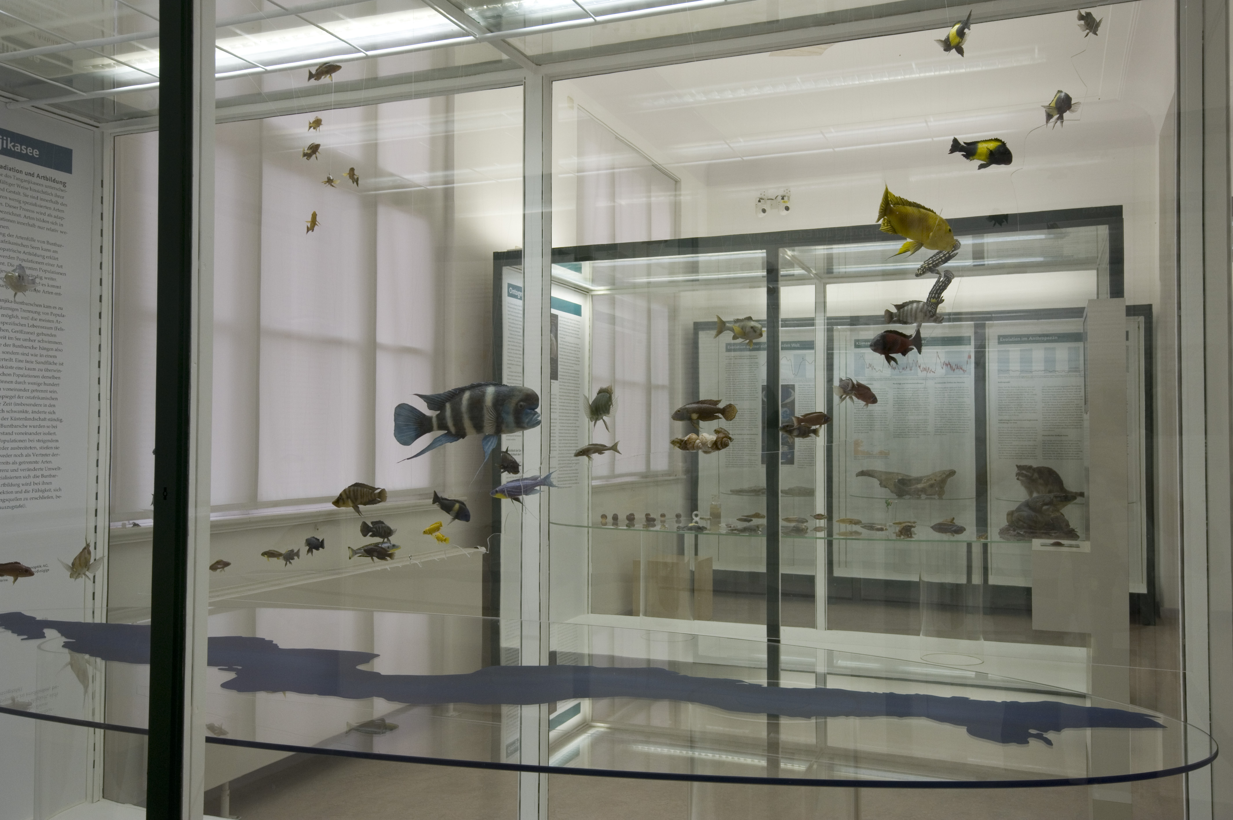 Phyletisches Museum Evolutionssaal